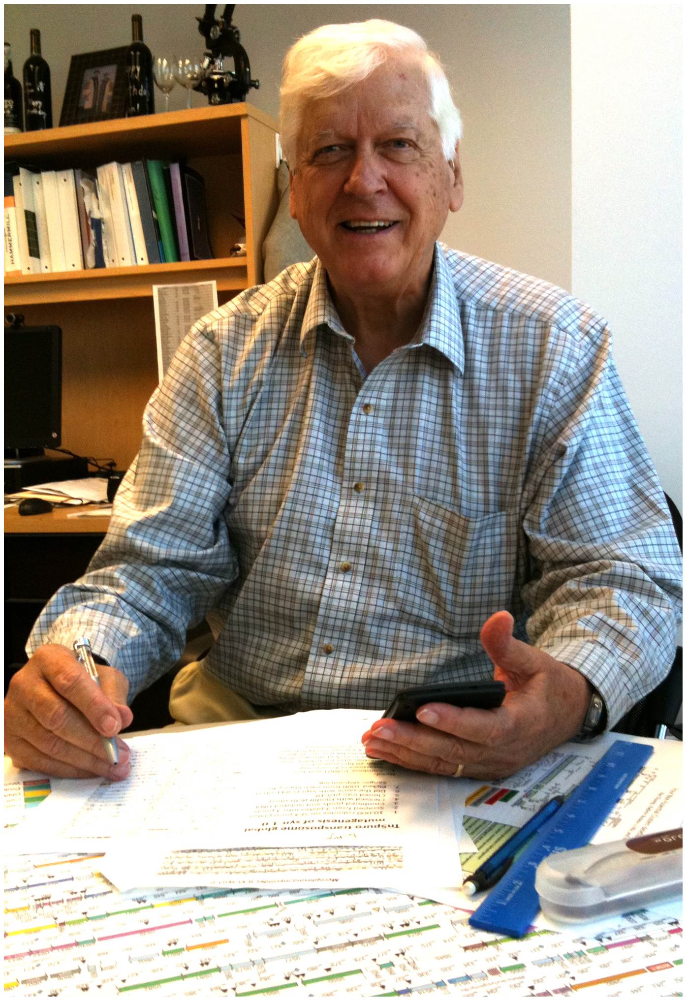 Photo of American microbiologist Hamilton Othanel Smith in late October 2011.